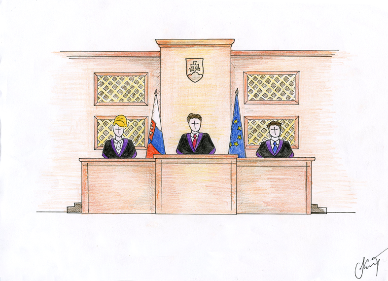 View on court in criminal proceeding. Judge sits in middle. Assessors of law at right and left side.